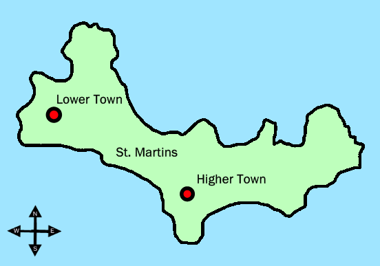 A map of the Scilly island of St. Martins.